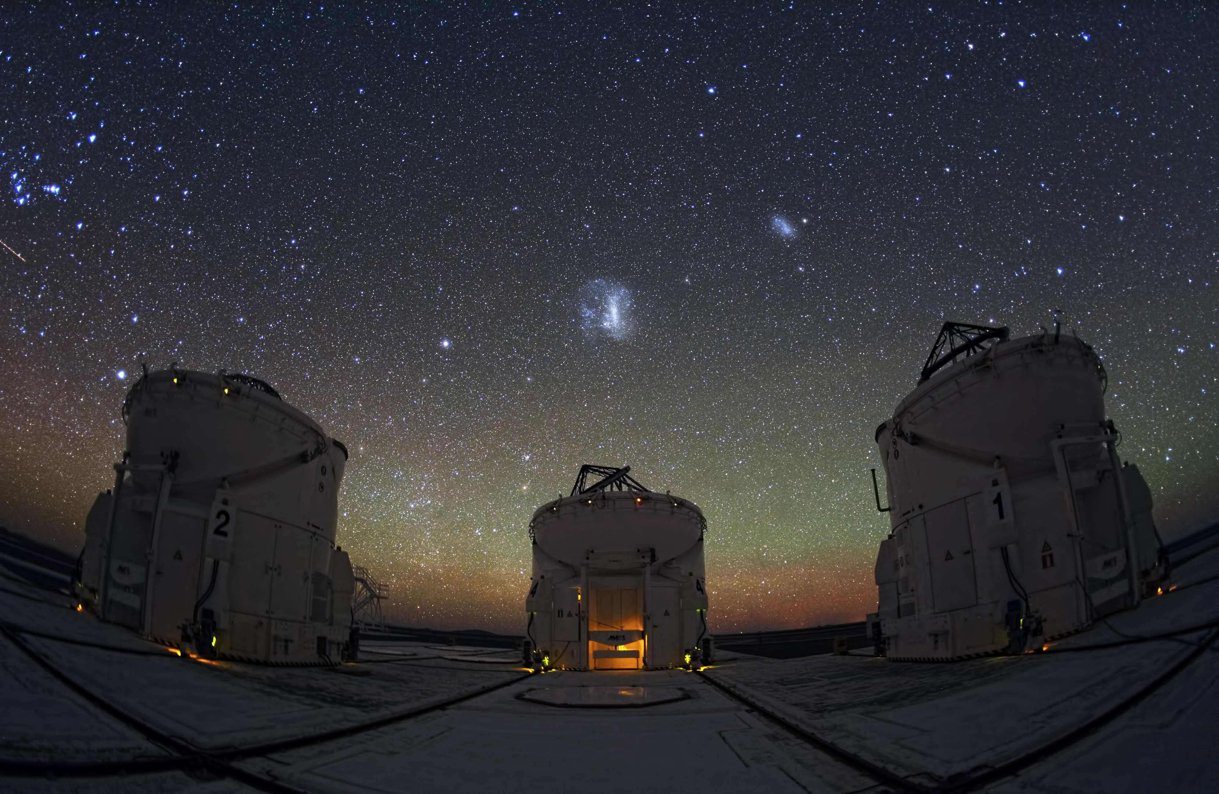 Gaze up at the night sky from ESO's Paranal Observatory in Chile, and you will be greeted with a stunning view like this one. Flecks of blue, orange, red; each a different star, galaxy, nebula, or more, together forming a sparkling sky overhead. Astronomers peer at this beautiful backdrop, trying to unravel the mysteries of the Universe. To do this, they use telescopes like the ones shown here, the VLT Auxiliary Telescopes. This image shows three of the four moveable units that feed light into the Very Large Telescope Interferometer, the world's most advanced optical instrument. Combining to form one larger telescope, they are greater than the sum of their parts: they reveal details that would be visible with a telescope as large as the distance between them.